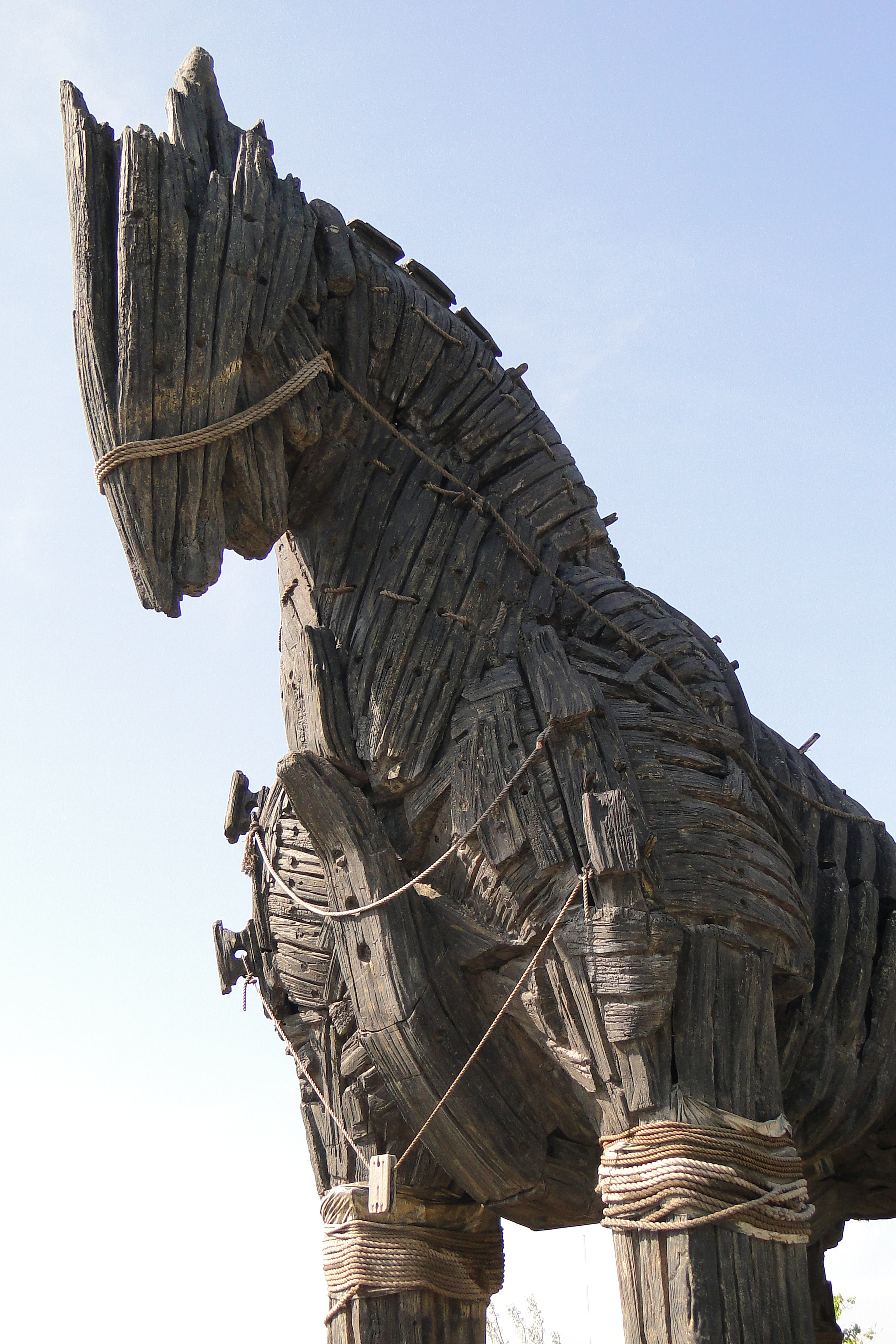 Replica of Trojan Horse - Canakkale Waterfront - Dardanelles - Turkey